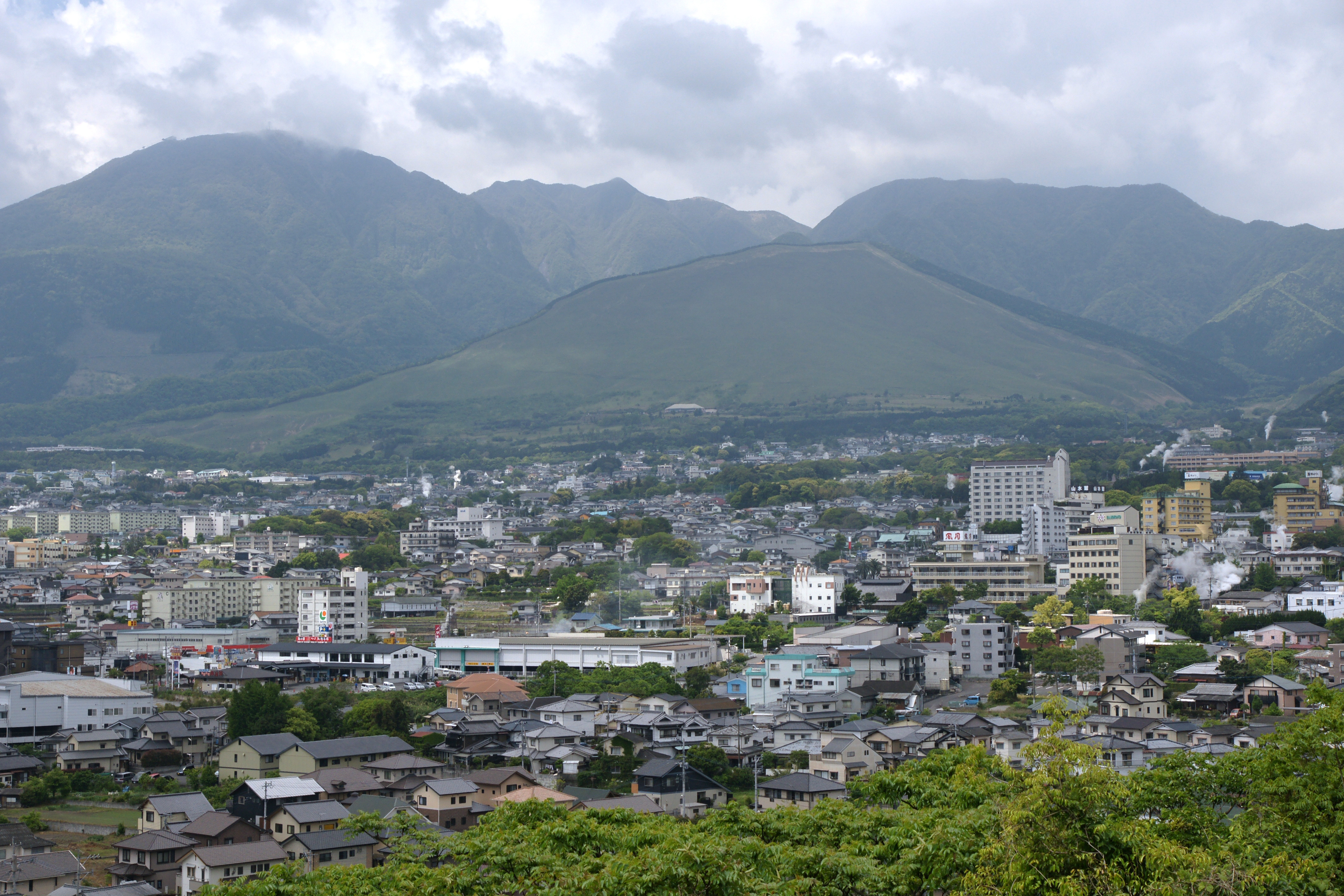 Kannawa Onsen of Beppu Onsen, Beppu, Oita prefecture, Japan